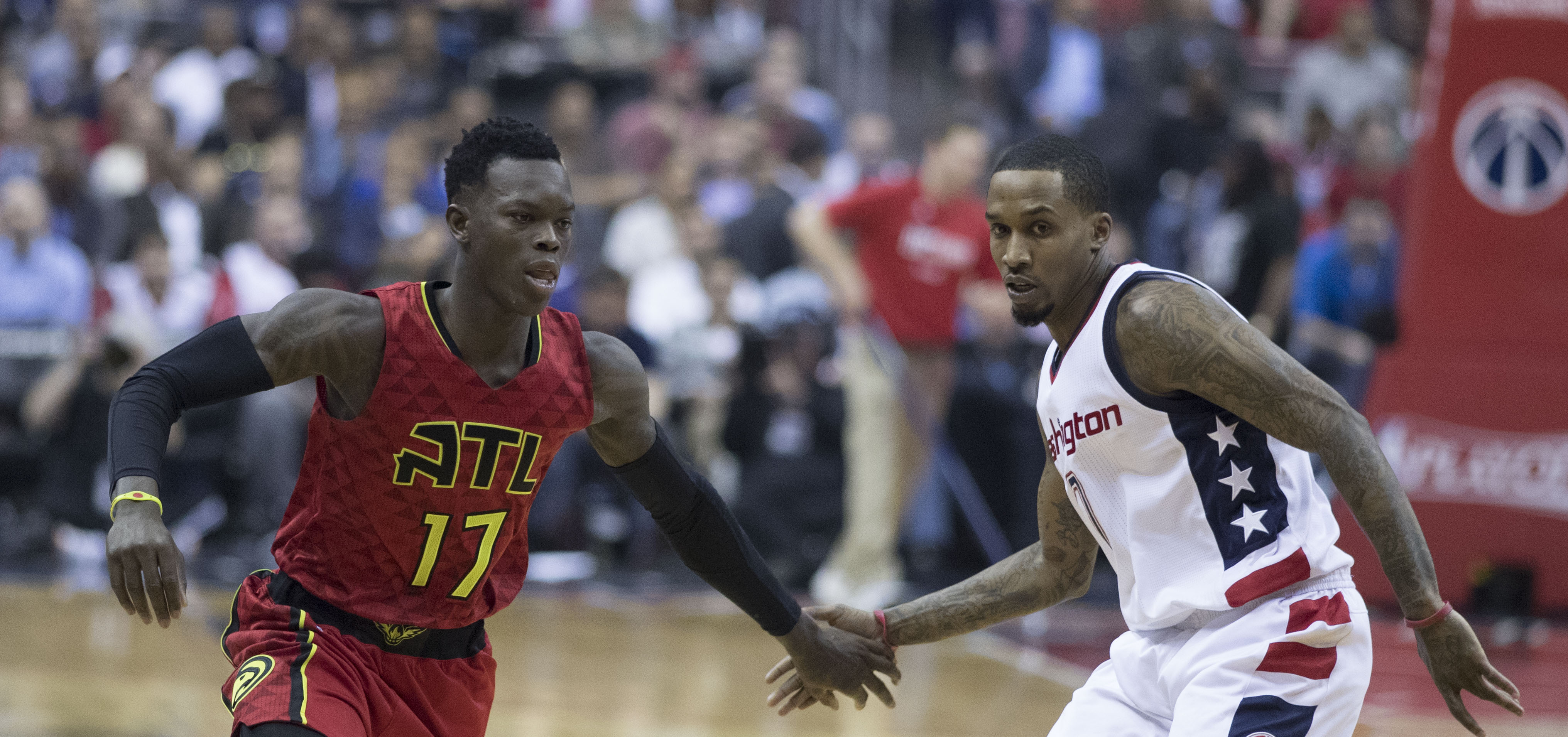 Hawks at Wizards 4/26/17